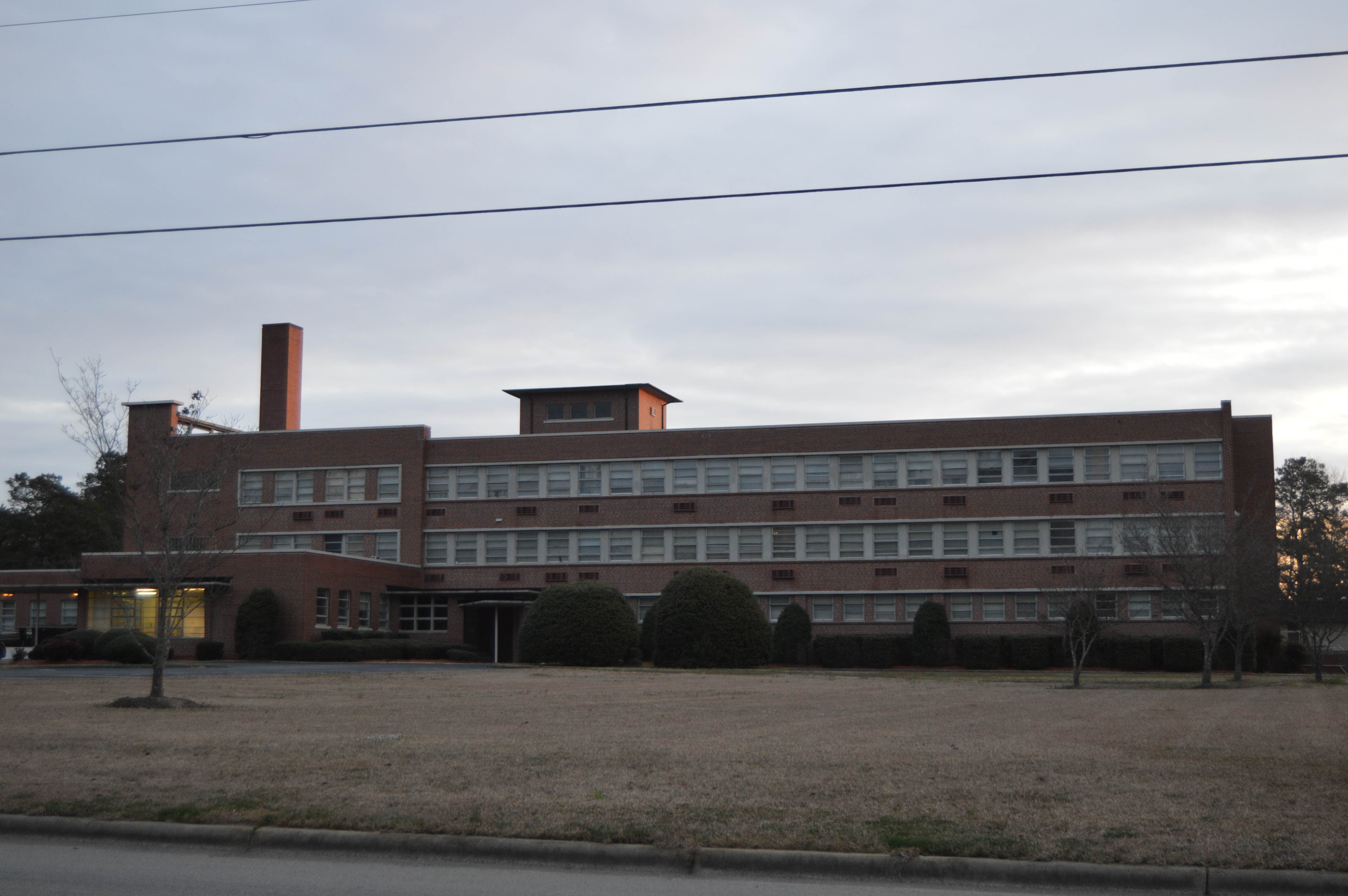 Front of Bertie Memorial Hospital (now Vidant Bertie Hospital), located at 1403 S. King Street in Windsor, North Carolina, United States. Built in 1952, it is listed on the National Register of Historic Places.